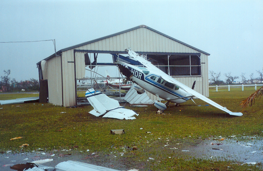 Keith's damage Effects of Hurricane Keith in Belize, October 2000.